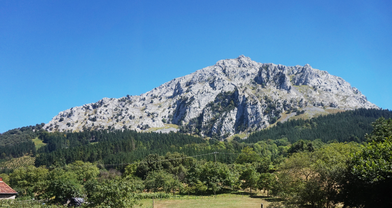 The mountain Untzillatx in Urkiola Natural Park. View from the west.This photograph was taken with a Sony ILCE-5000